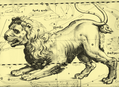 This is a drawing of the constellation Leo by John Hevelius of 1690.